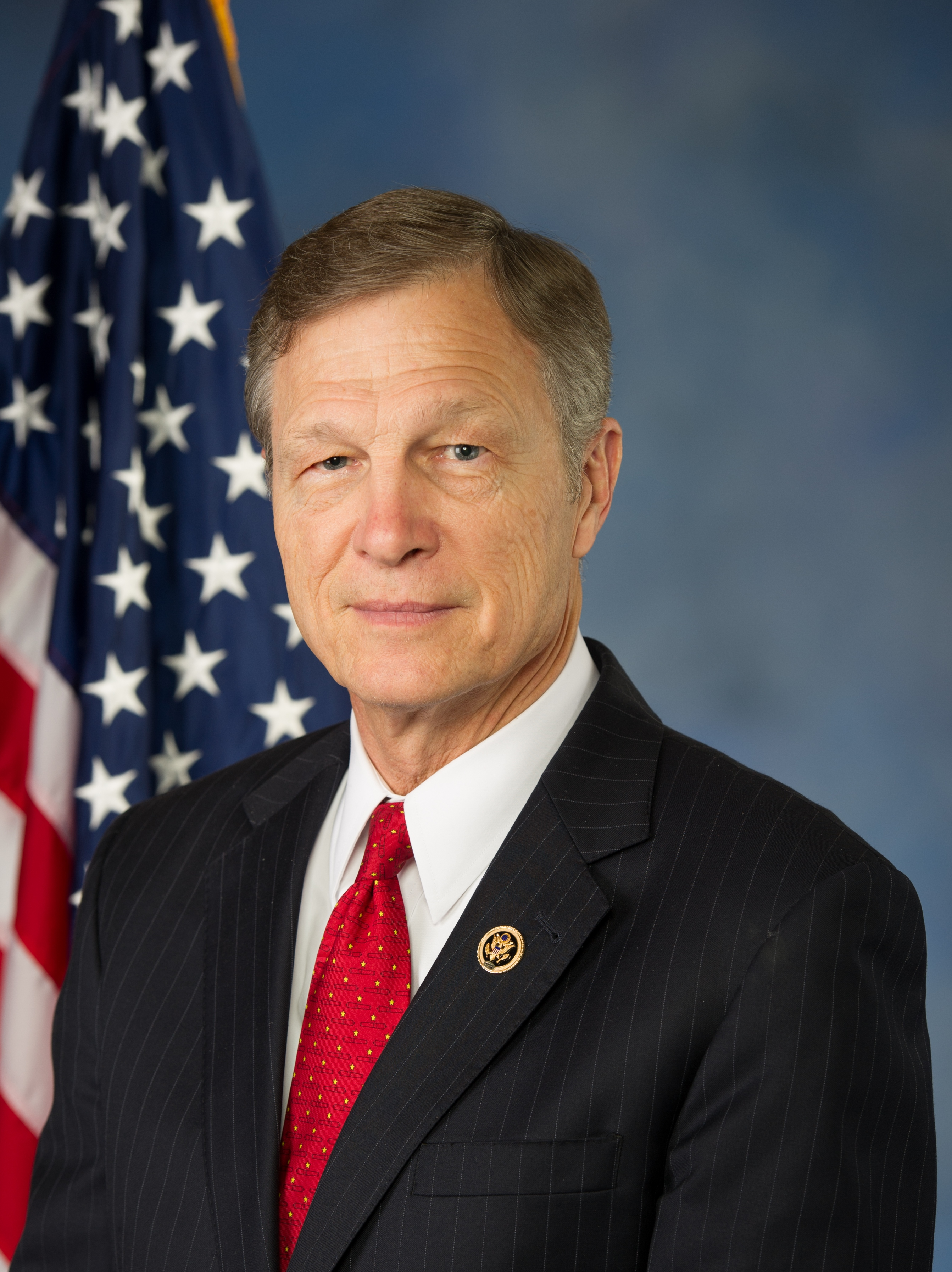 Brian Babin official photo 2